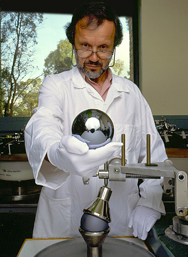 A 1-kg single-crystal silicon sphere for the Avogadro Project is shown above in the hands of Master Optician Achim Leistner at the Australian Centre for Precision Optics (ACPO), which is part of Australia's Commonwealth Scientific and Industrial Research Organisation (CSIRO).ACPO's spheres are among the roundest man-made objects on Earth. (The gyroscopes of Gravity Probe B are equally round but are in orbit, not "on Earth".) If one of their Ø 93.6 mm spheres, which had an out-of-roundness of 35 nm, was scaled to the size of the Earth, its ‘continents’ would gradually rise only 2.4 meters above sea level.